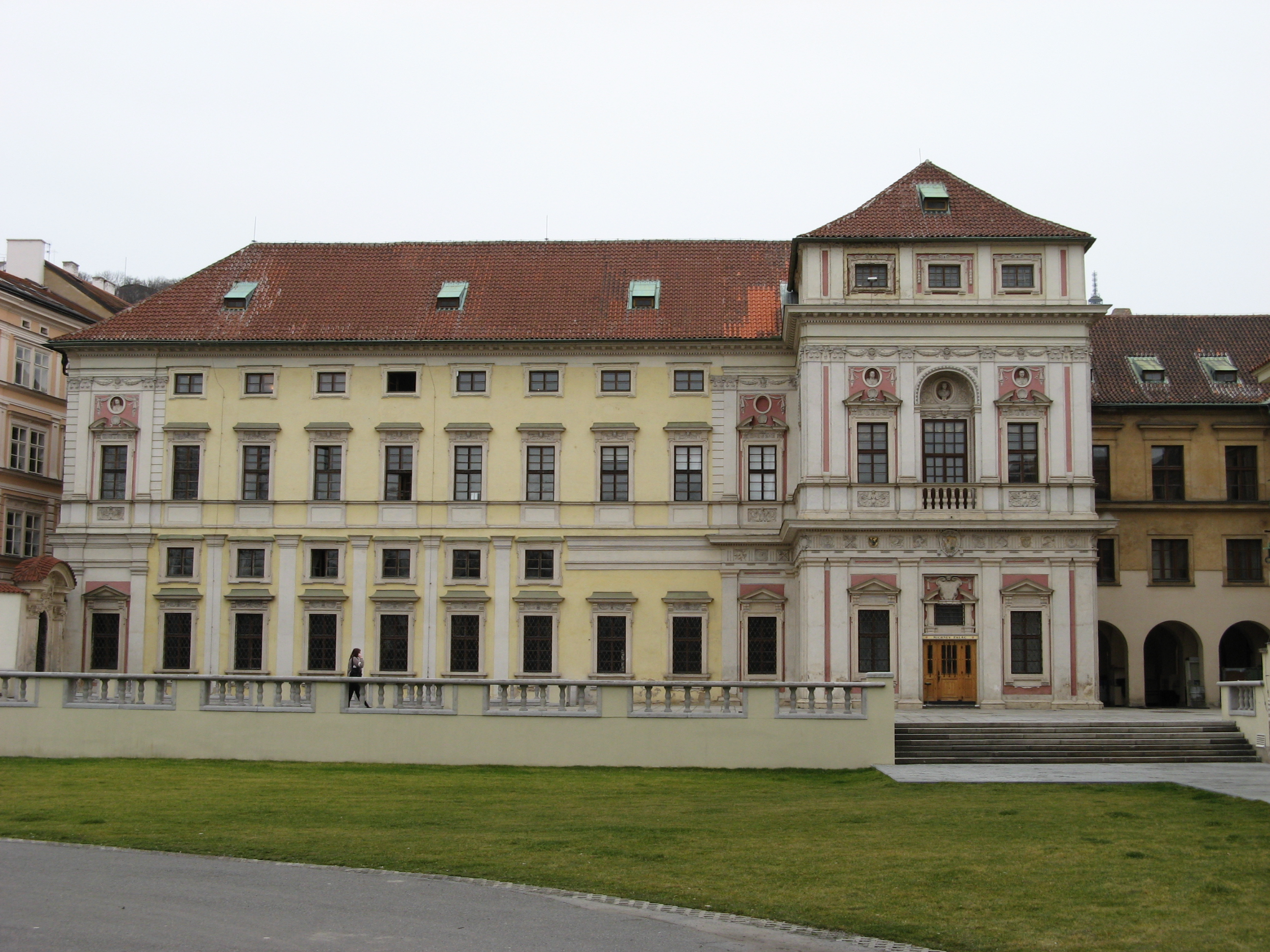 Michna Palace (Tyrš House) as seen from Vltava river, Prague